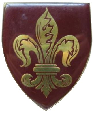 SADF era Swellendam Commando emblem